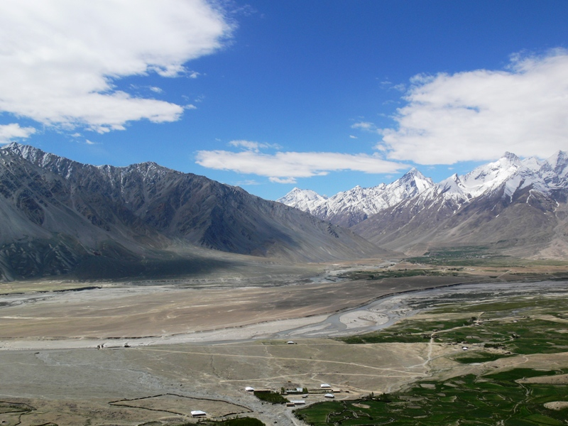 View of Padum valley from Karsha Gompha, Zanskar, Ladakh.